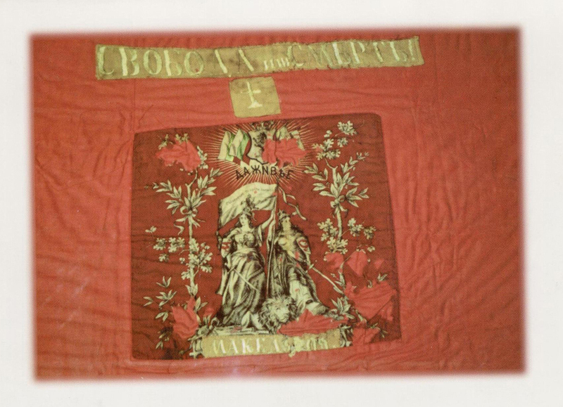 The flag of the Kastorian cheta of IMRO used in the Ilinden-Preobrazhenie uprising in 1903.